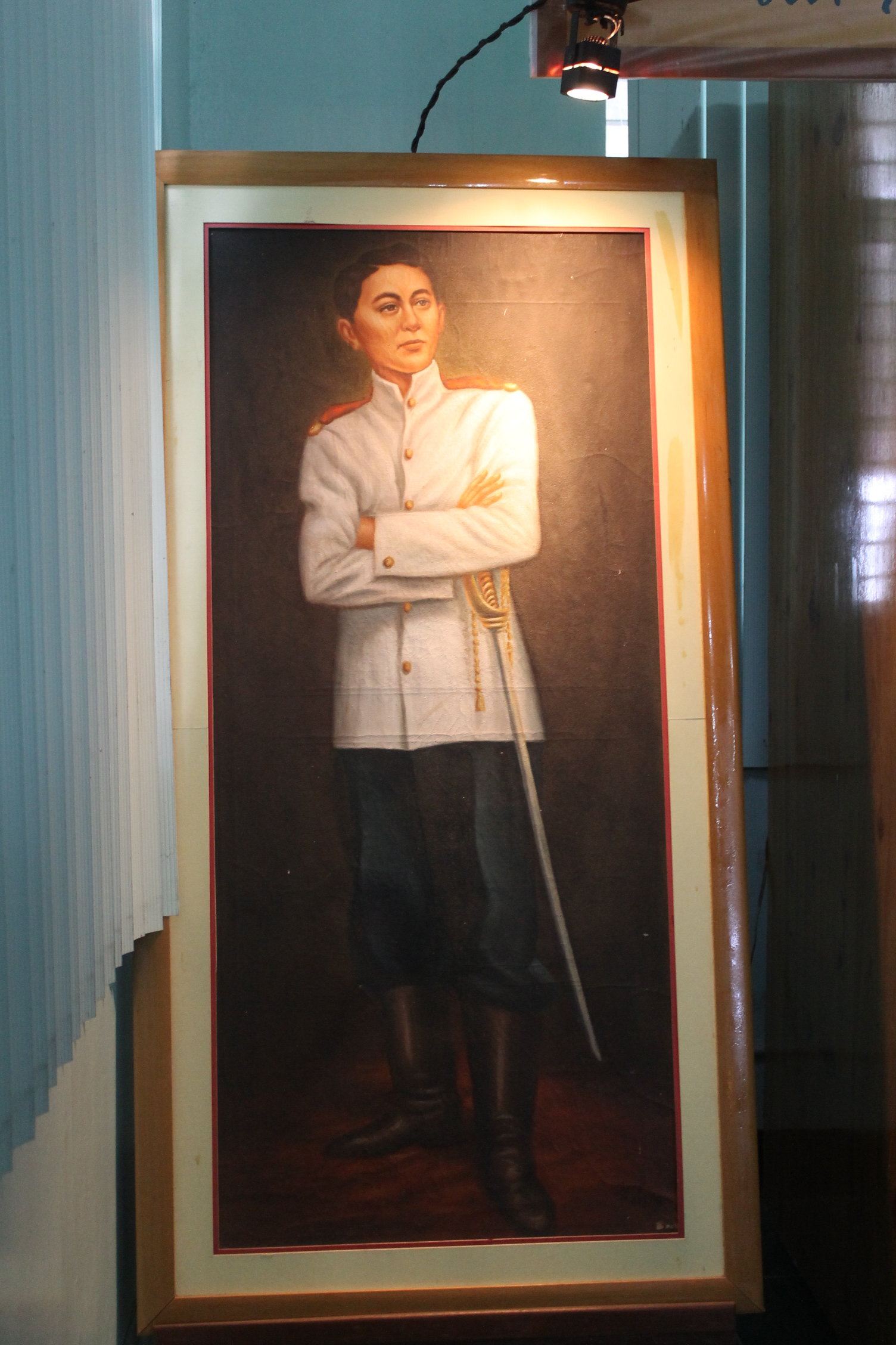 Gregorio del Pilar painting at PMA Museum